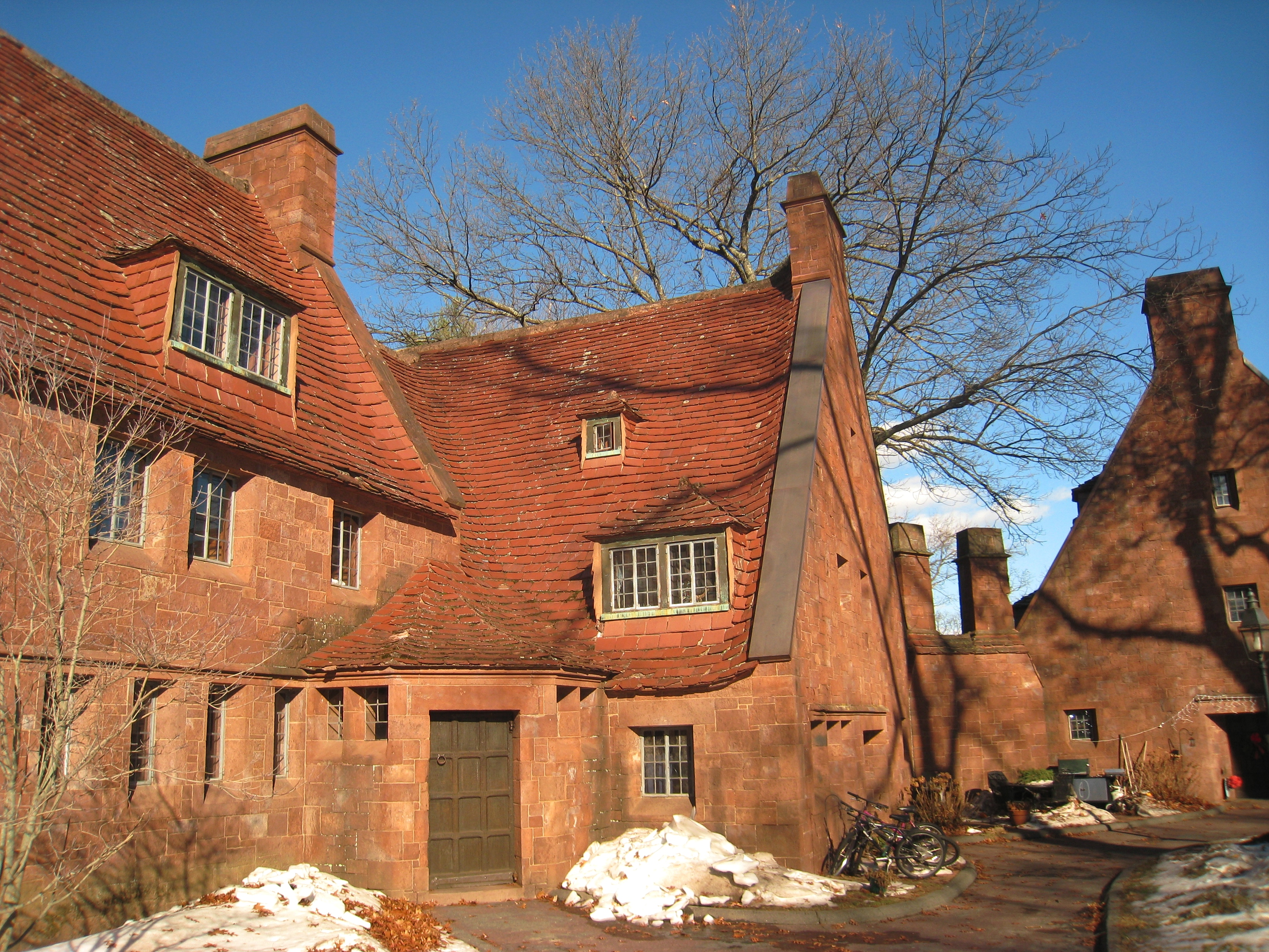 Avon Old Farms School, Avon, Connecticut, USA - exterior view. Architect Theodate Pope Riddle; school founded 1927.